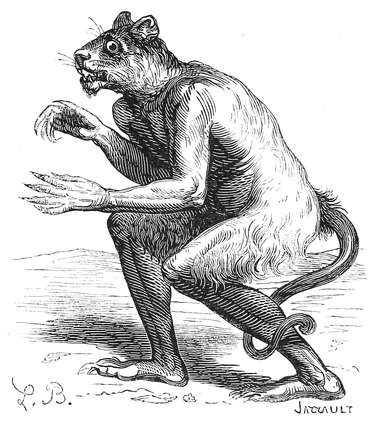 Flauros is depicted as a terrible and strong leopard that under request of the conjurer changes into a man with fiery eyes and an awful expression.